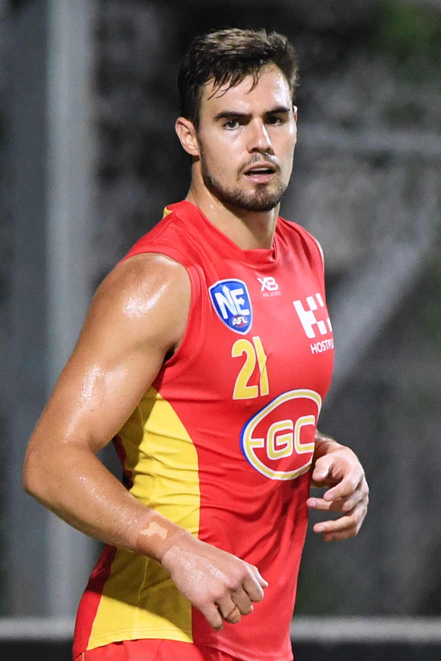 Jack Leslie of Gold Coast during the 2019 NEAFL round 5 match between NT Thunder and Gold Coast at TIO Stadium on Saturday, 4 May 2019 in Darwin, Australia.